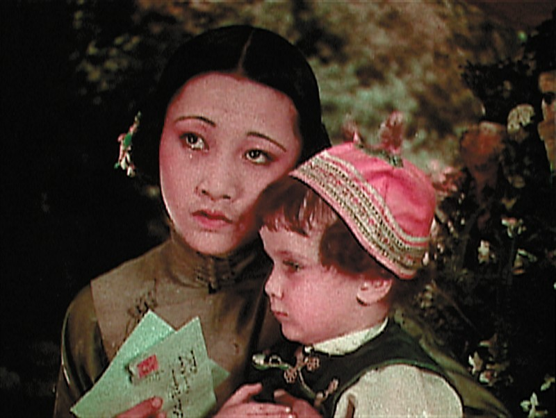 The Toll of the Sea